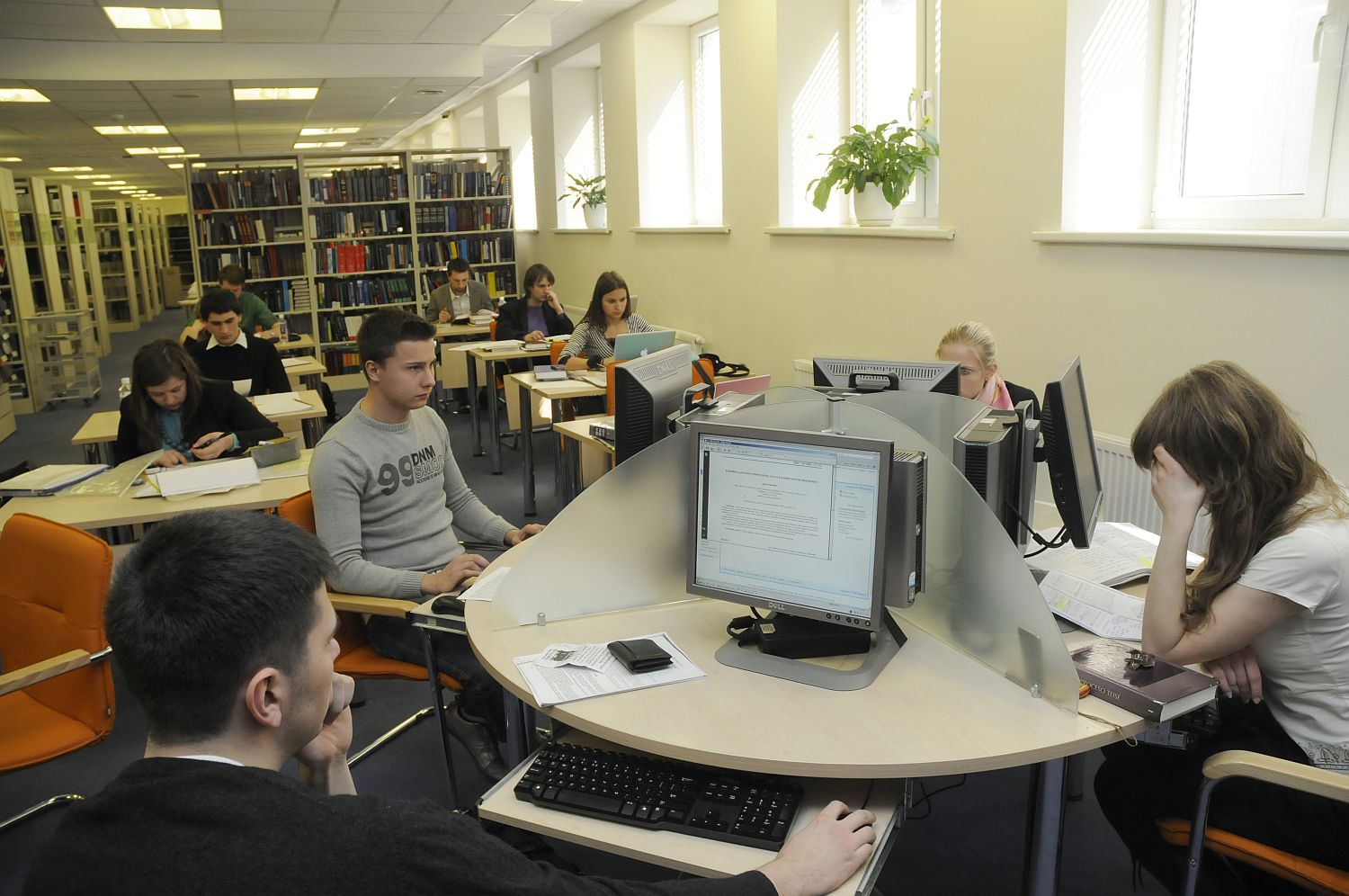 Mykolas Romeris university library